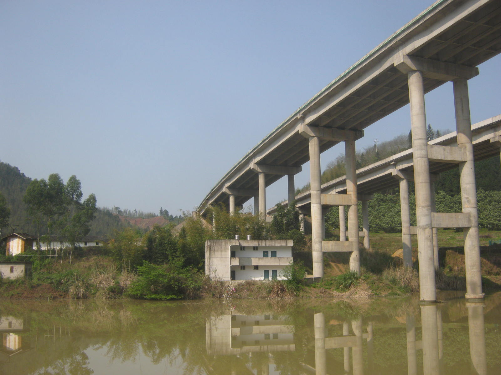 Elevated section of G25 between YongAn (永安) and LianCheng （连城）in Fujian province.